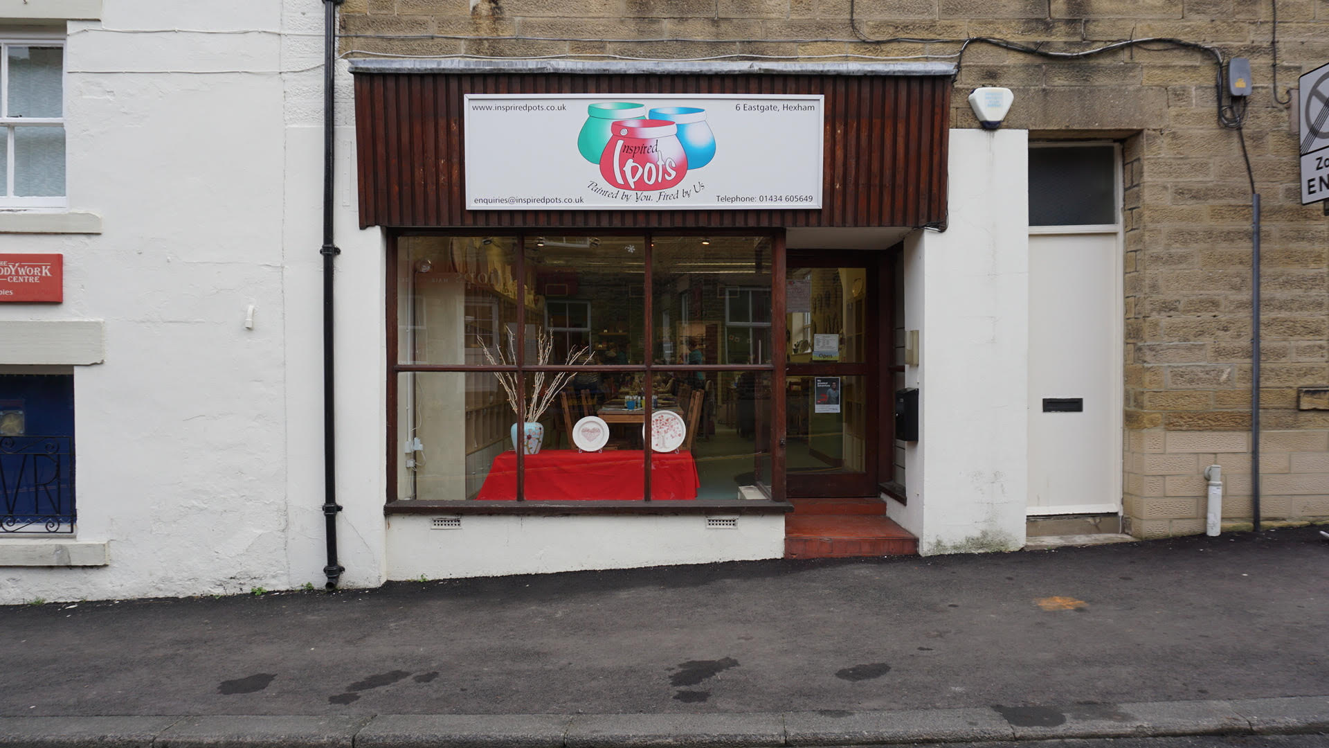 Inspired pots in Hexham